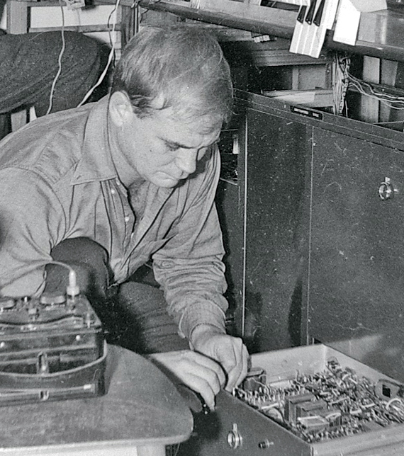 Uzi Sharon, Israeli pioneer in developing guided missile systems and laser surgery equipment. Photographed at the Centre for Electronic Music in Israel (Jerusalem)(~1962)